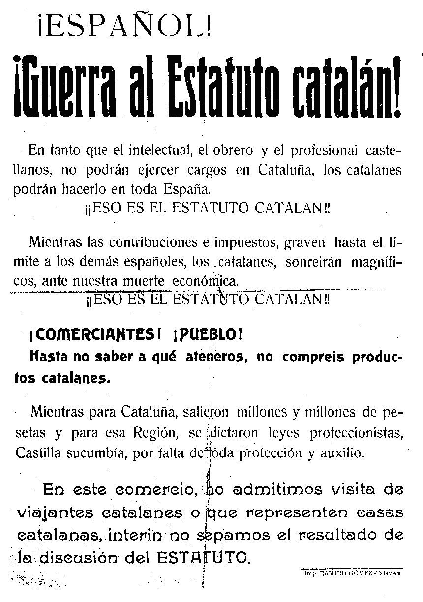 1930s anti-Catalan boycott